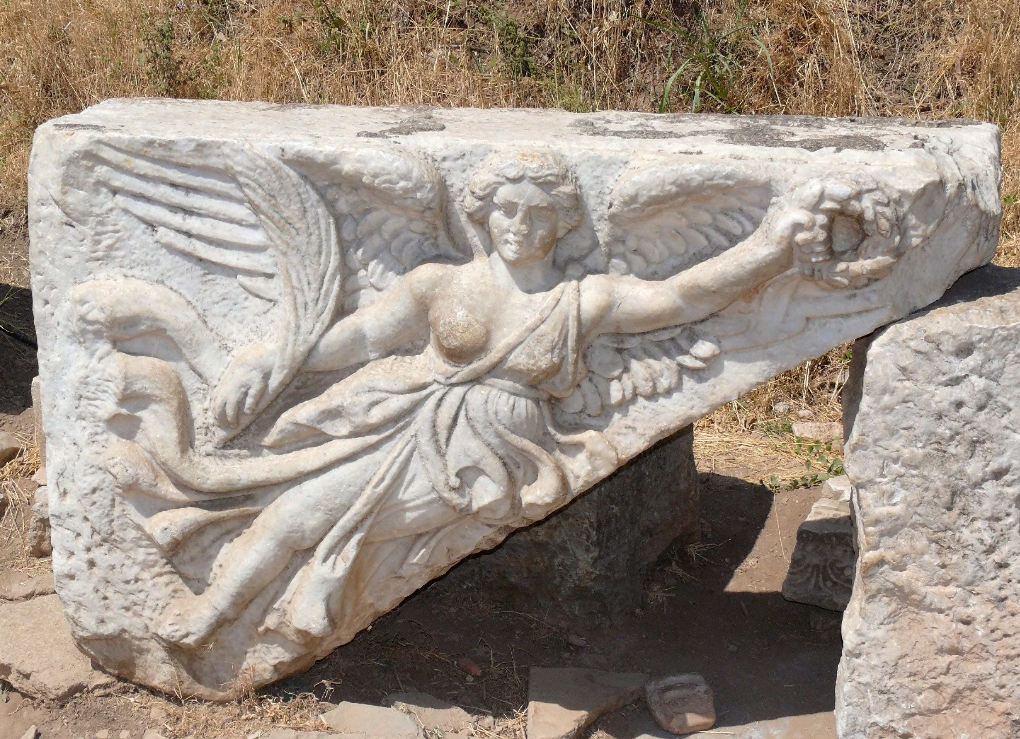 Statue of the Greek goddess Nike at the archeological site of Ephesus